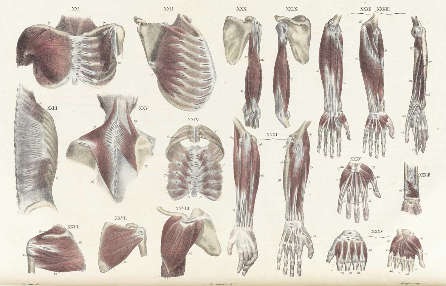 Some muscles of human body.